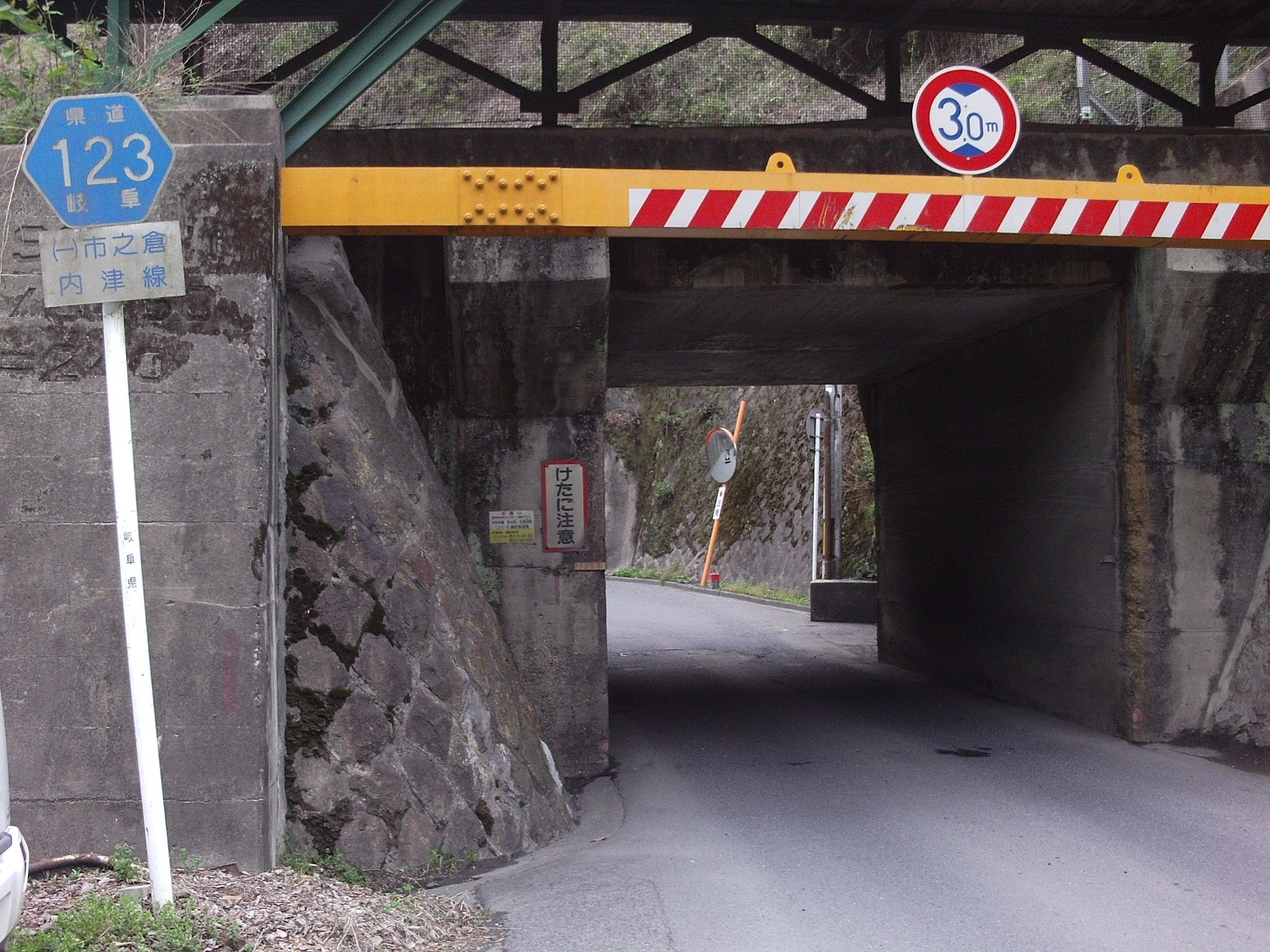 Gifu prefectural road No.123 in Suwacho, Tajimi, Gifu.